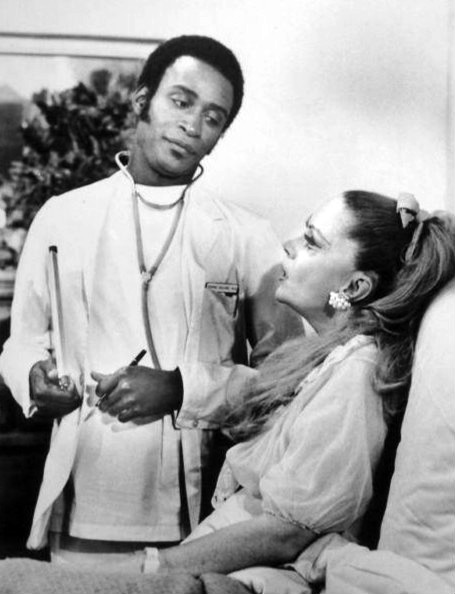 Photo of Cleavon Little and guest star Jayne Meadows from the television program Temperatures Rising, episode "Good Luck, Leftkowitz", air date Oct. 24, 1972.